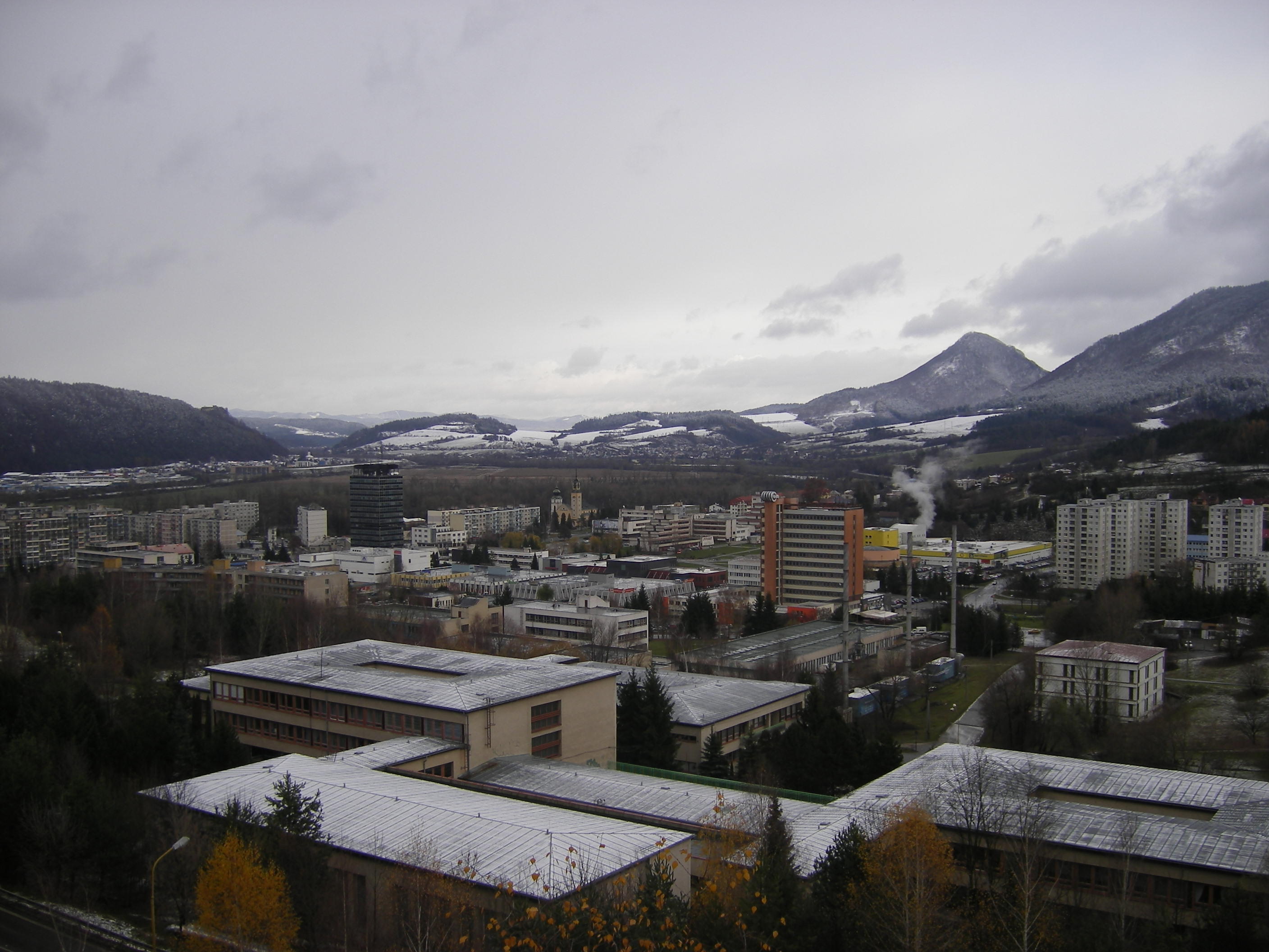 Photo of slovak town Povazska Bystrica